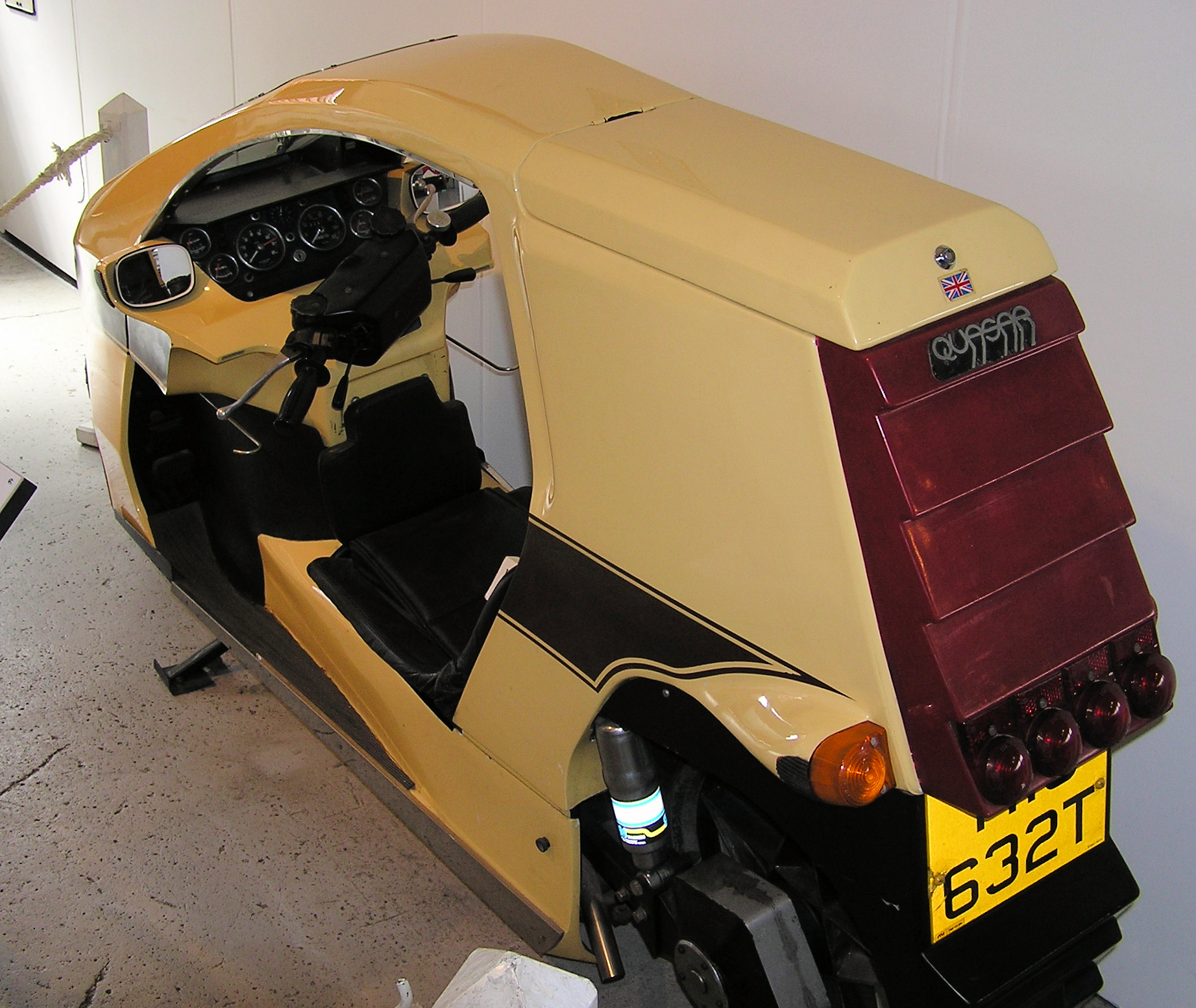 Quasar motorcycle in the Bristol Industrial Museum, Bristol, England. This was the works demonstrator TWS 632T, built in 1976 by Wilson Engineering (Staple Hill, Bristol, England) and rebuilt by Romarsh in 1983. It is still in full working order. The price of a Quasar was around £5000, the price then of a medium-sized family car. (In 2007 the Bristol Industrial Museum was permanently closed for conversion to the Museum of Bristol. The exhibits are in storage.) Photographed by Adrian Pingstone in August 2004 and released to the public domain.